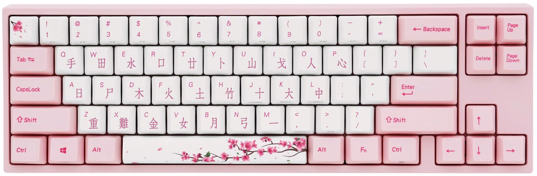 MIYA Pro Sakura Edition with customized Cangjie keyboard layouts